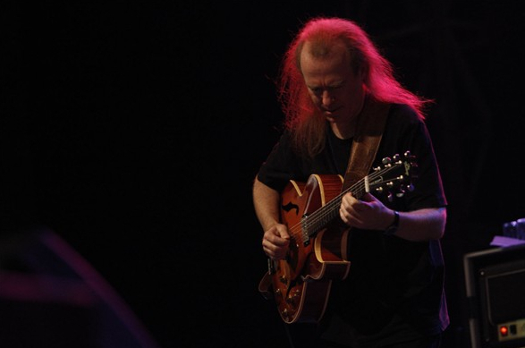 David Becker at Ambon Jazz 2011